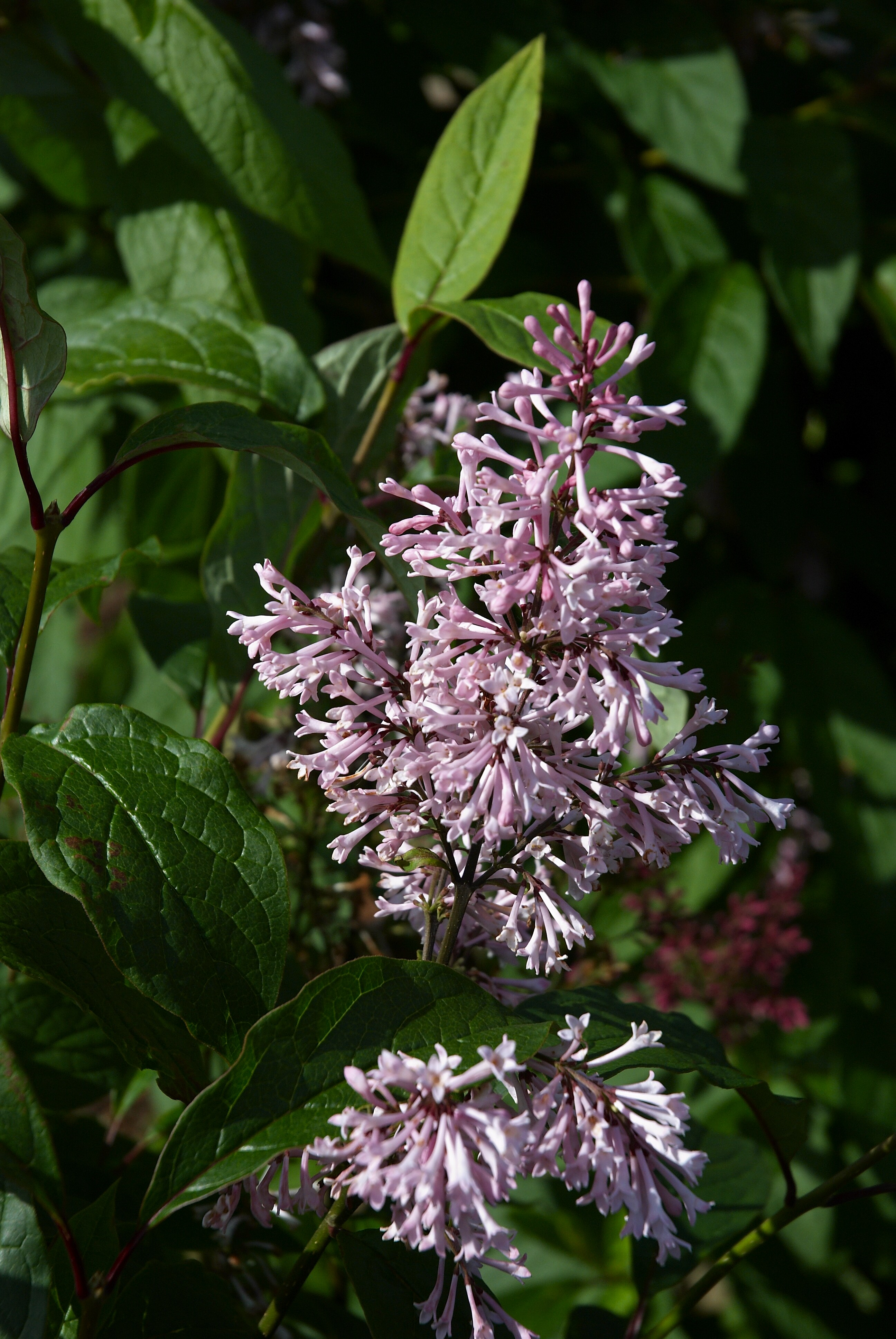 Syringa × prestoniae 'Coral'. Photo taken in an arboriculture in Vossem, Belgium